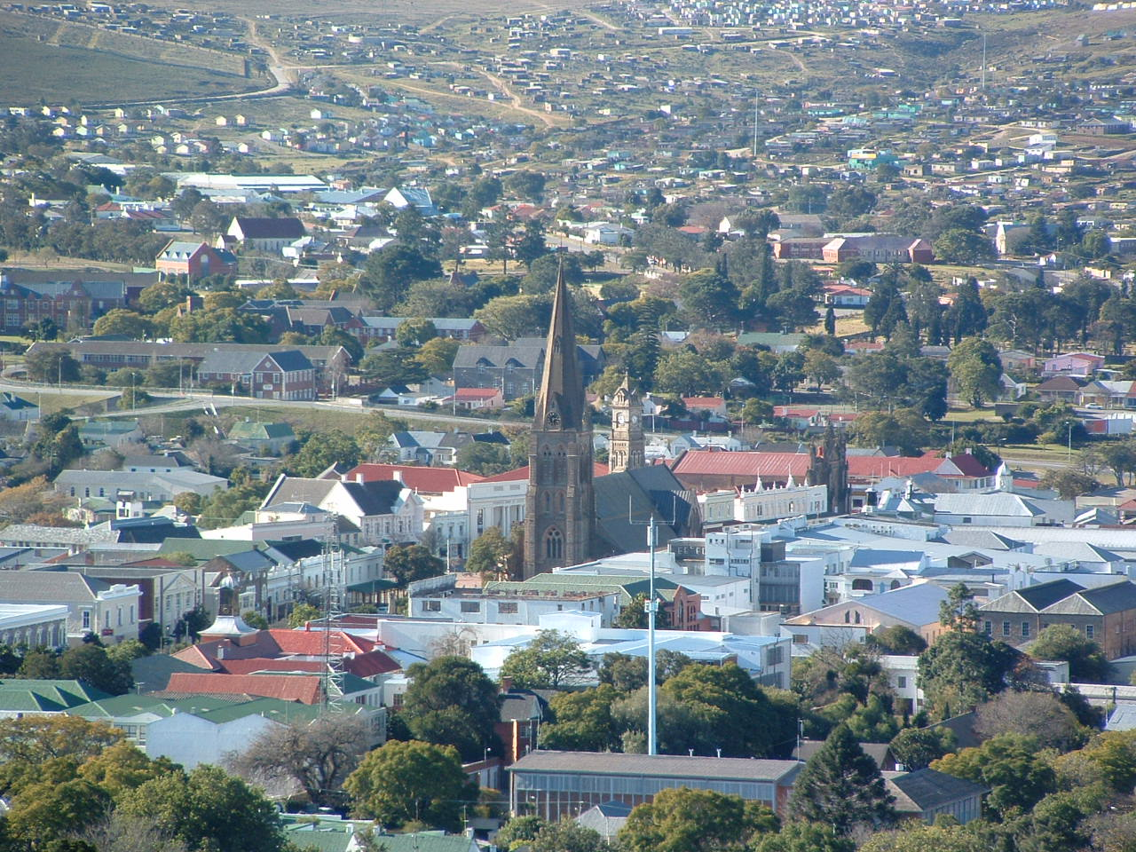 Grahamstown, South Africa